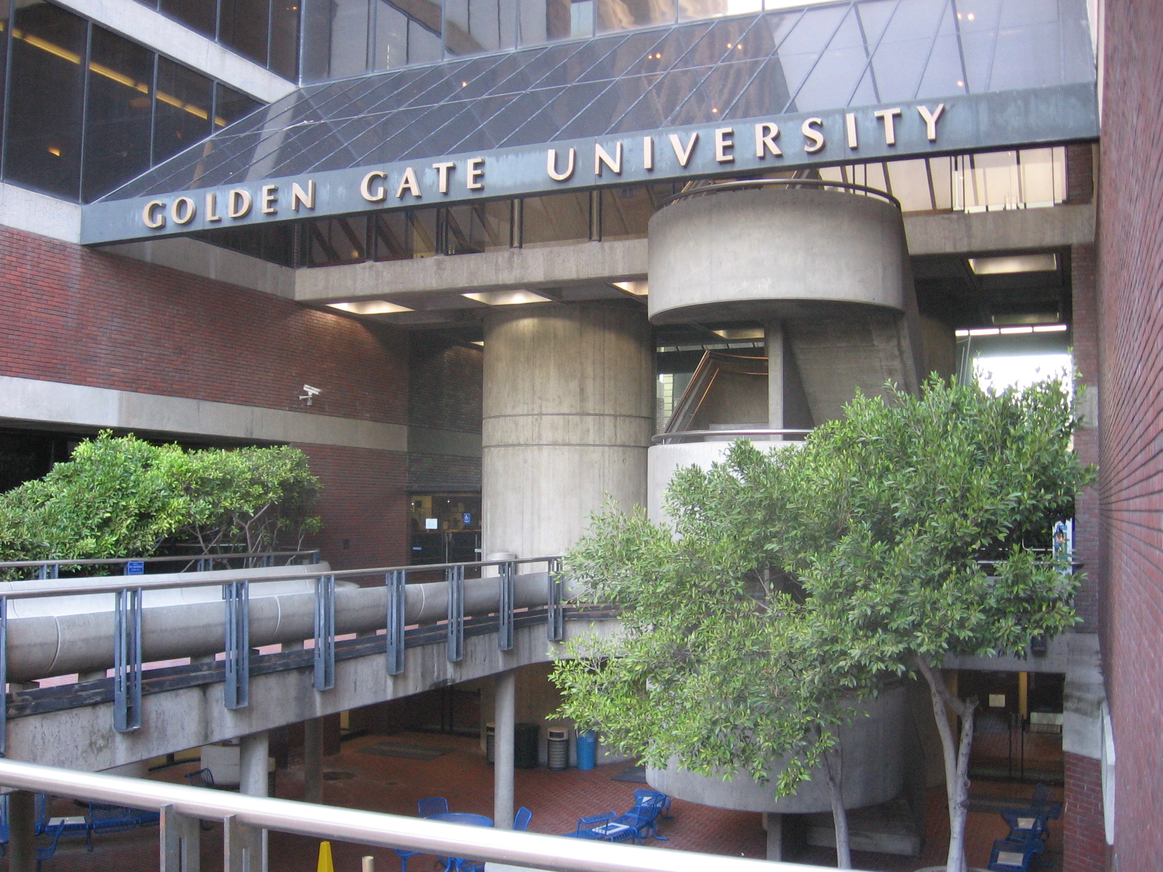 Entrance to Golden Gate University's San Francisco campus on Mission Street Taken by me December 2007